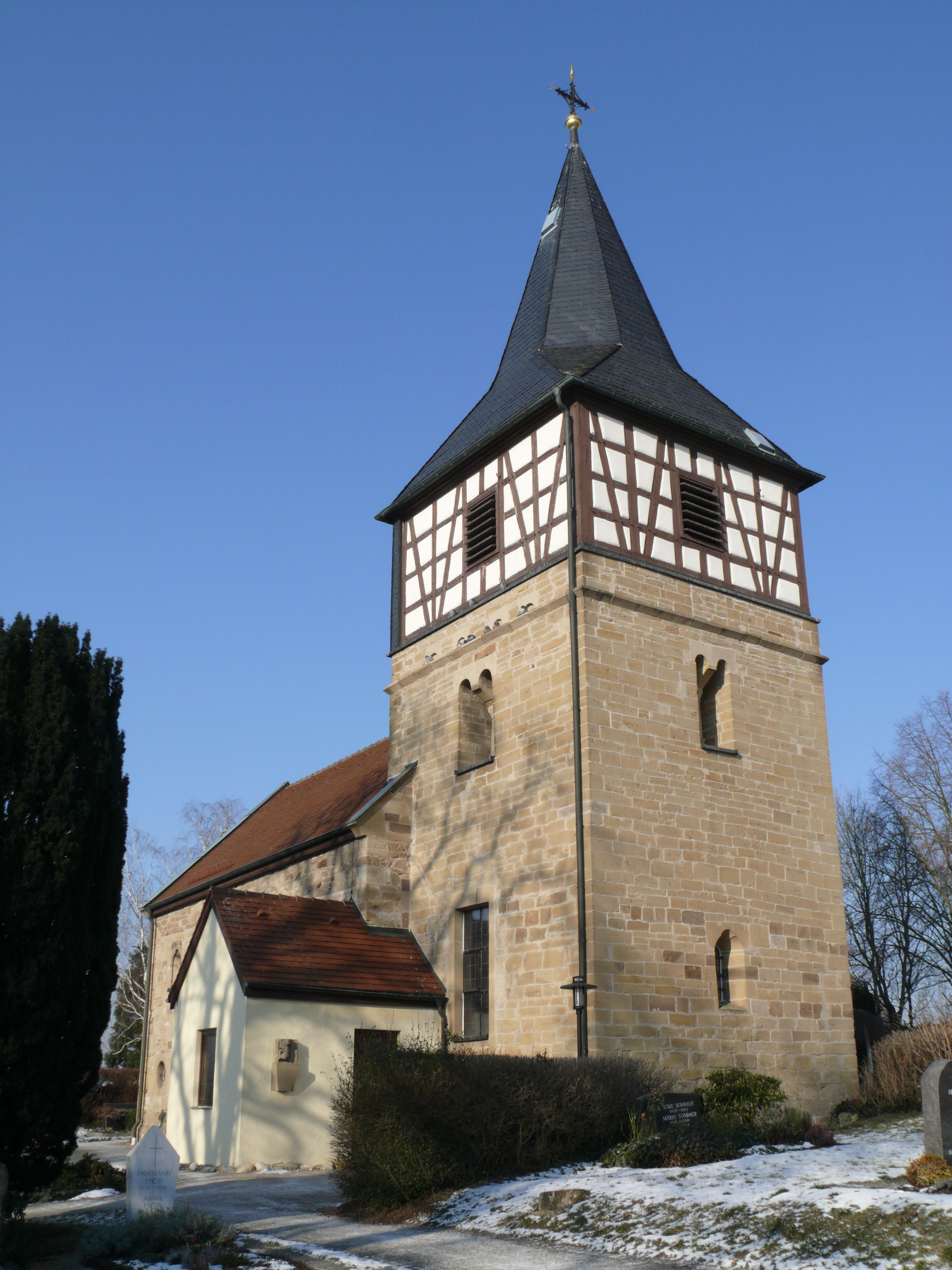 View of the Martinskirche (Saint Martin church) in Frauenzimmern (a district of Güglingen, Germany) from southeast. Winter.